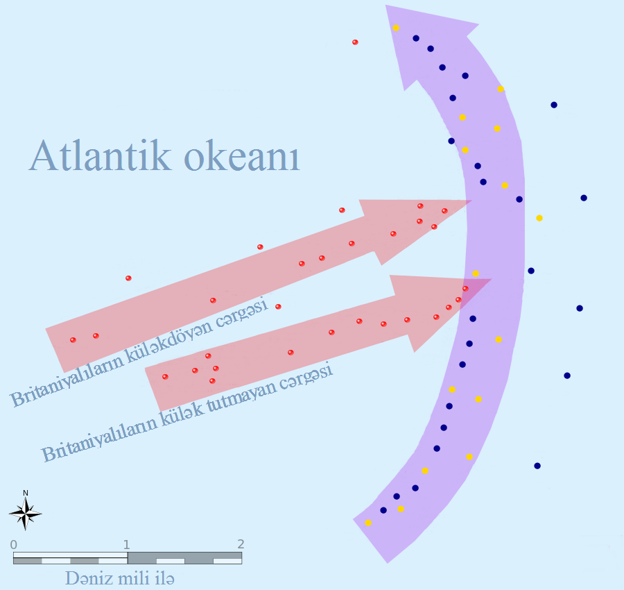 This map of the Battle of Trafalgar shows the approximate position of the two fleets at 1200 hours during the battle as the Royal Sovereign was breaking into the Franco-Spanish line. North is to the top, and Cape Trafalgar is 10 miles to the northeast.